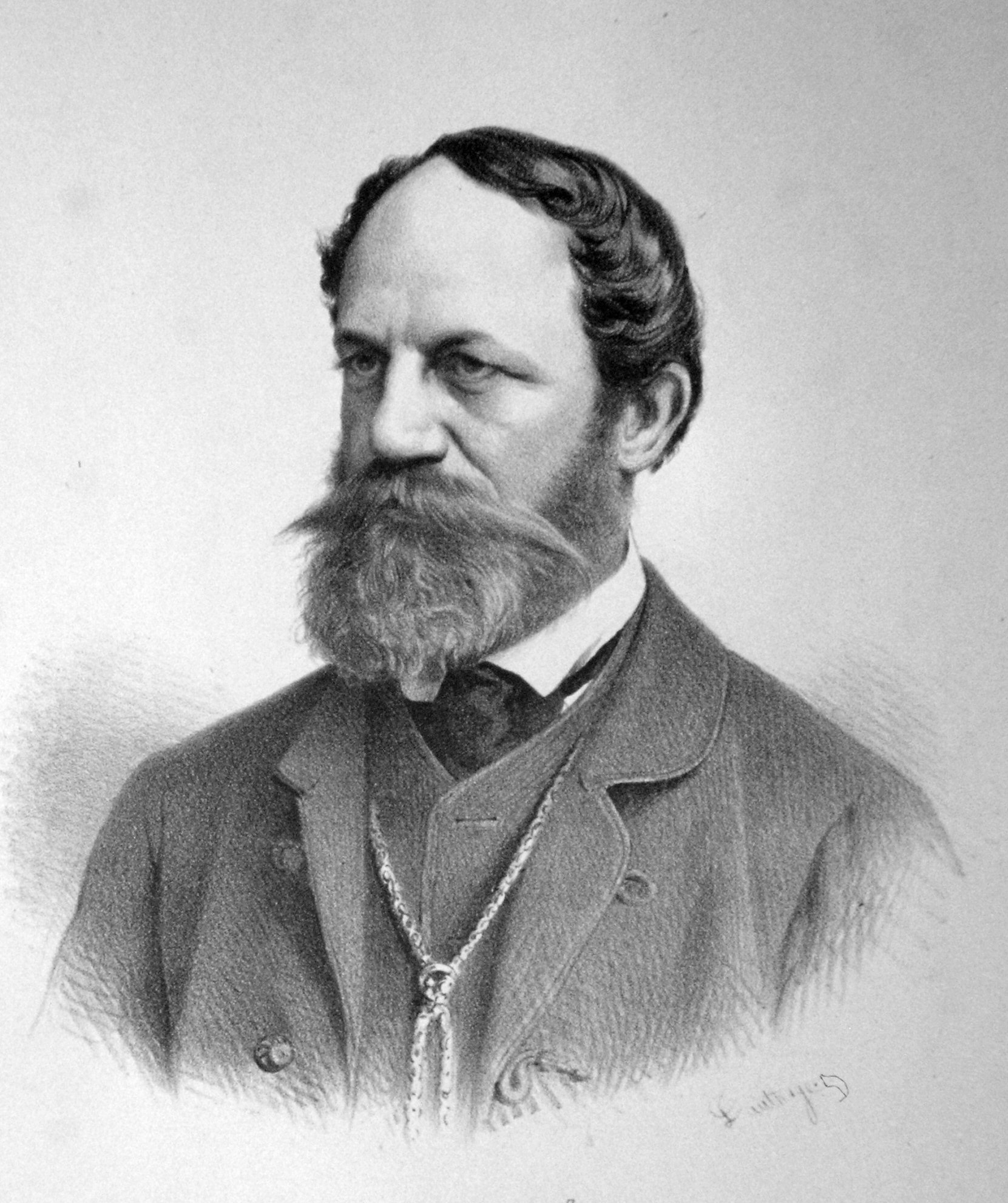 Mór Jókai (1825-1904), hungarian writer Lithograph by Adolf Dauthage From "Das Parlament" published by A. Eckstein Vienna